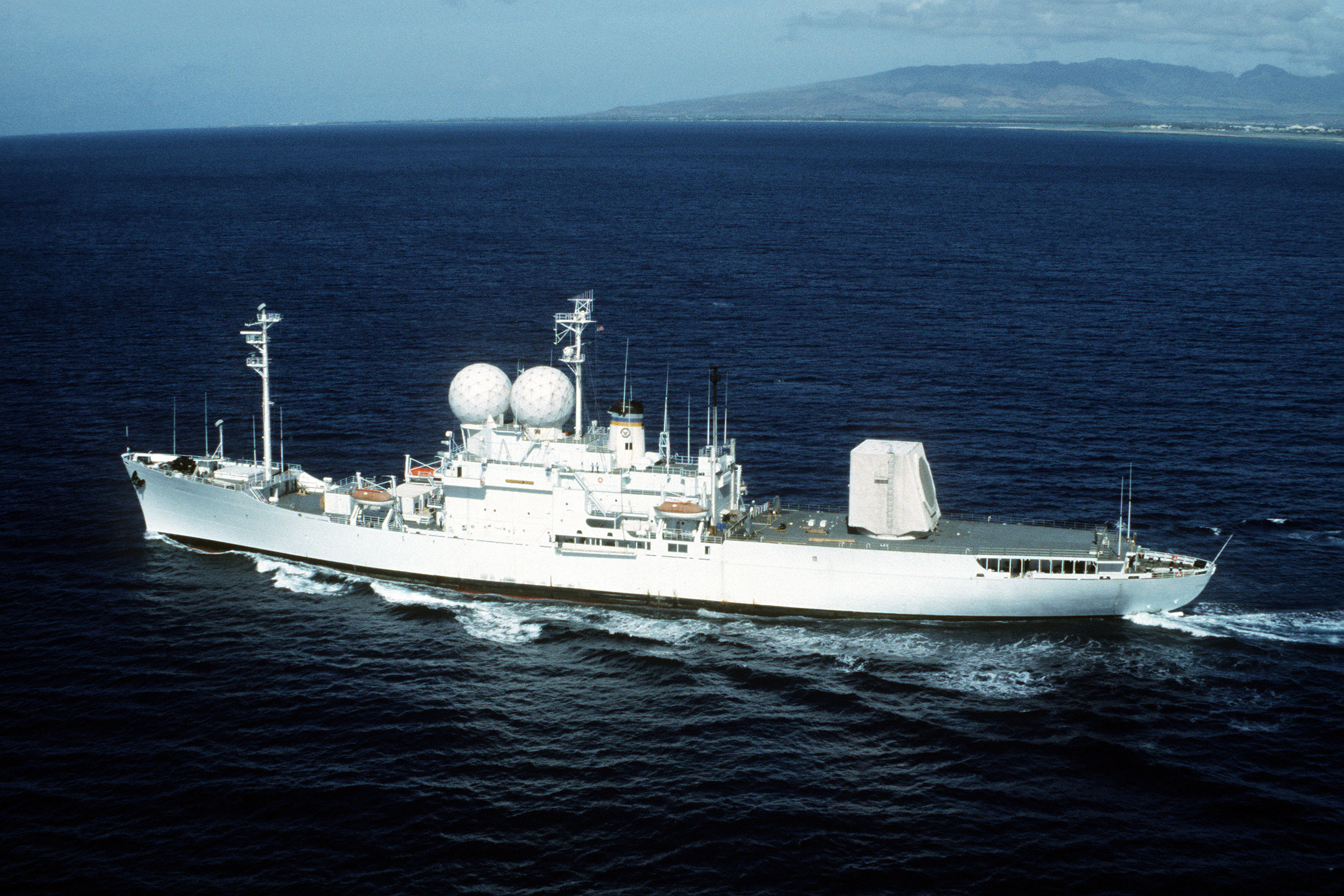 An aerial port view of the missile range instrumentation ship USNS Observation Island (T-AGM-23) underway off the coast Hawaii.